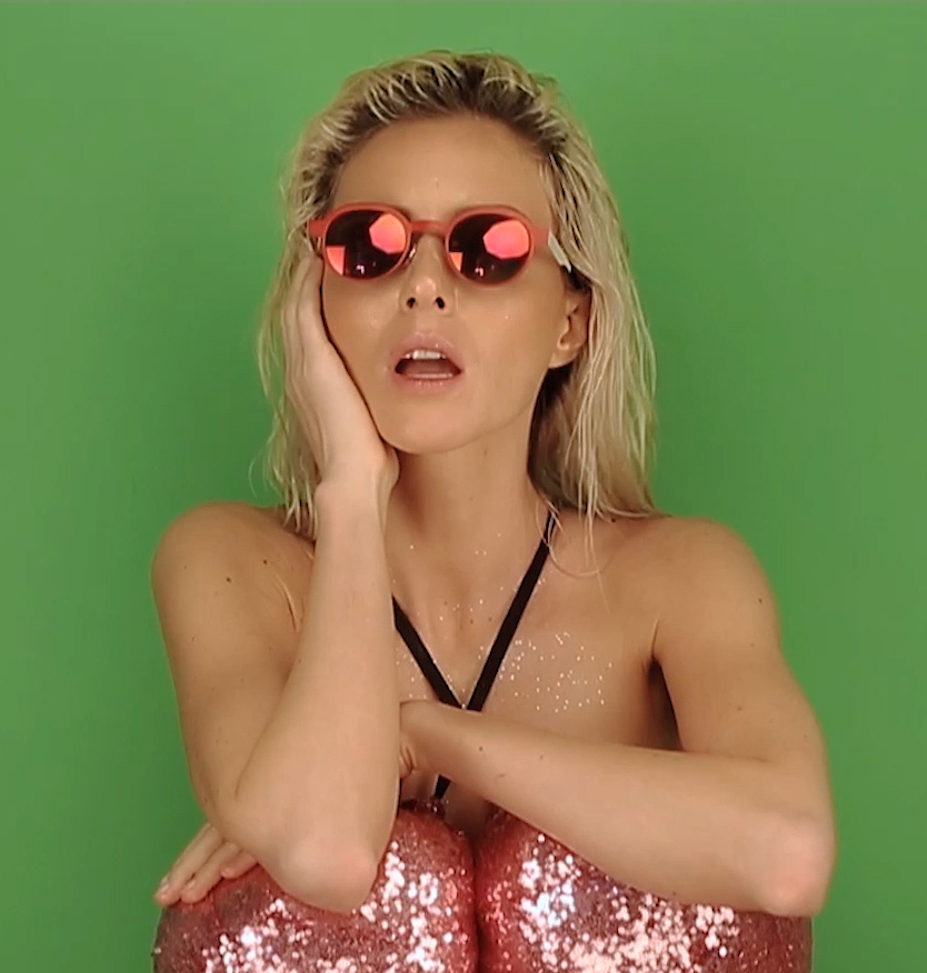 Anca Pop 2017 (Cropped) from the original